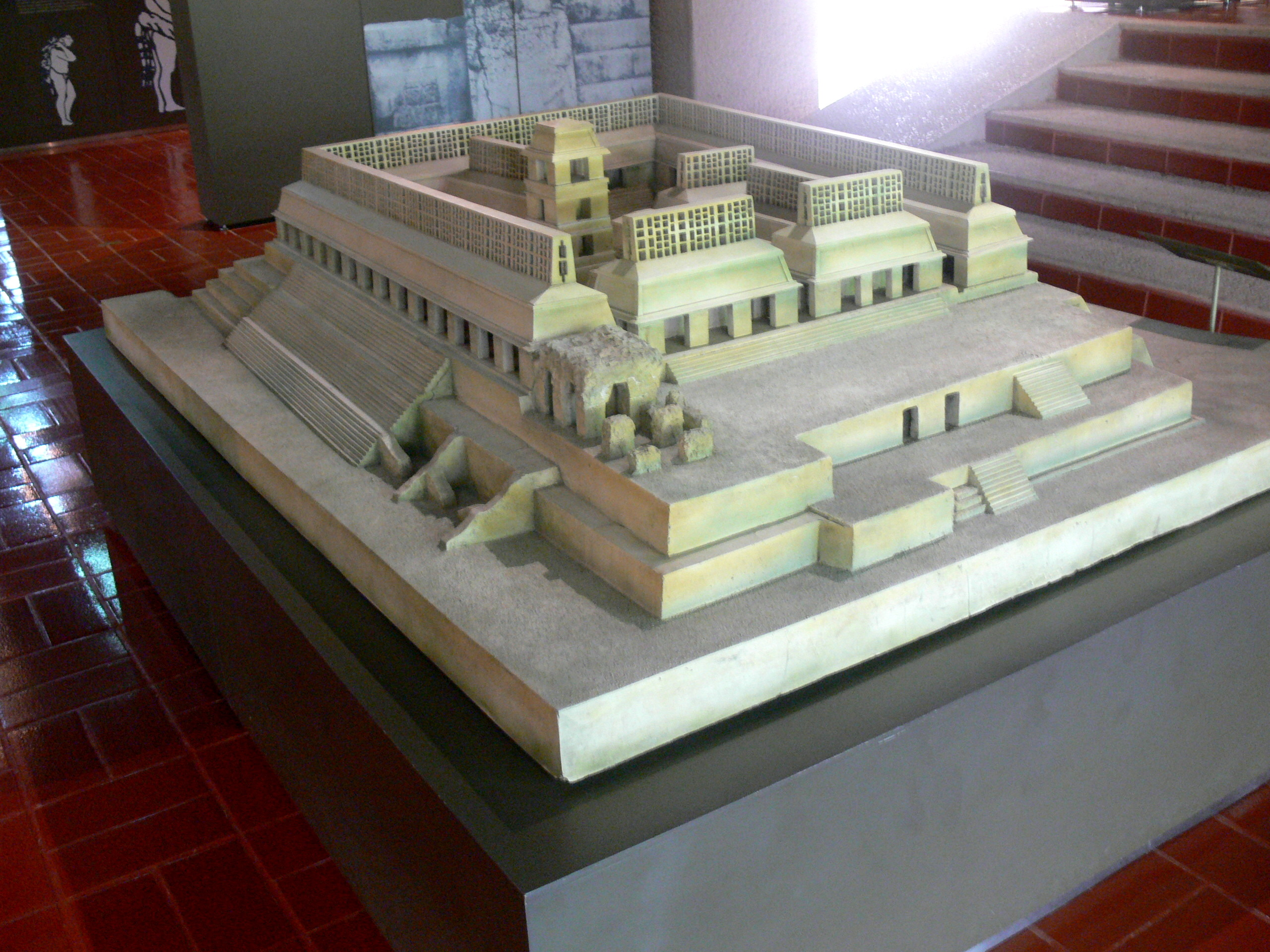 Palenque - Museo del sitio. Reconstruction of El Palacio.